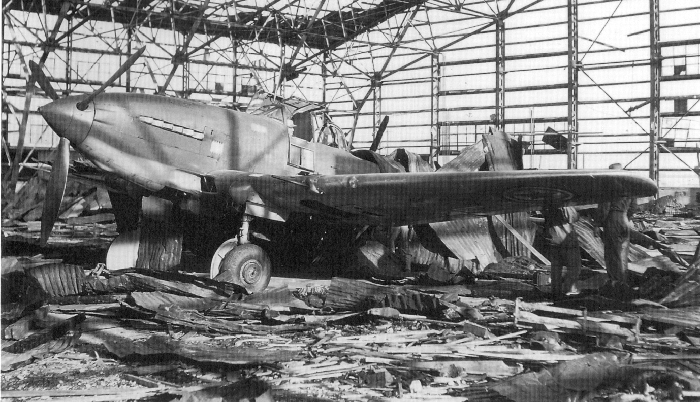 An abandoned Soviet-made North Korean Ilyushin Il-10 attack aircraft captured by United Nations forces at Kimpo airfield during the Korean War.